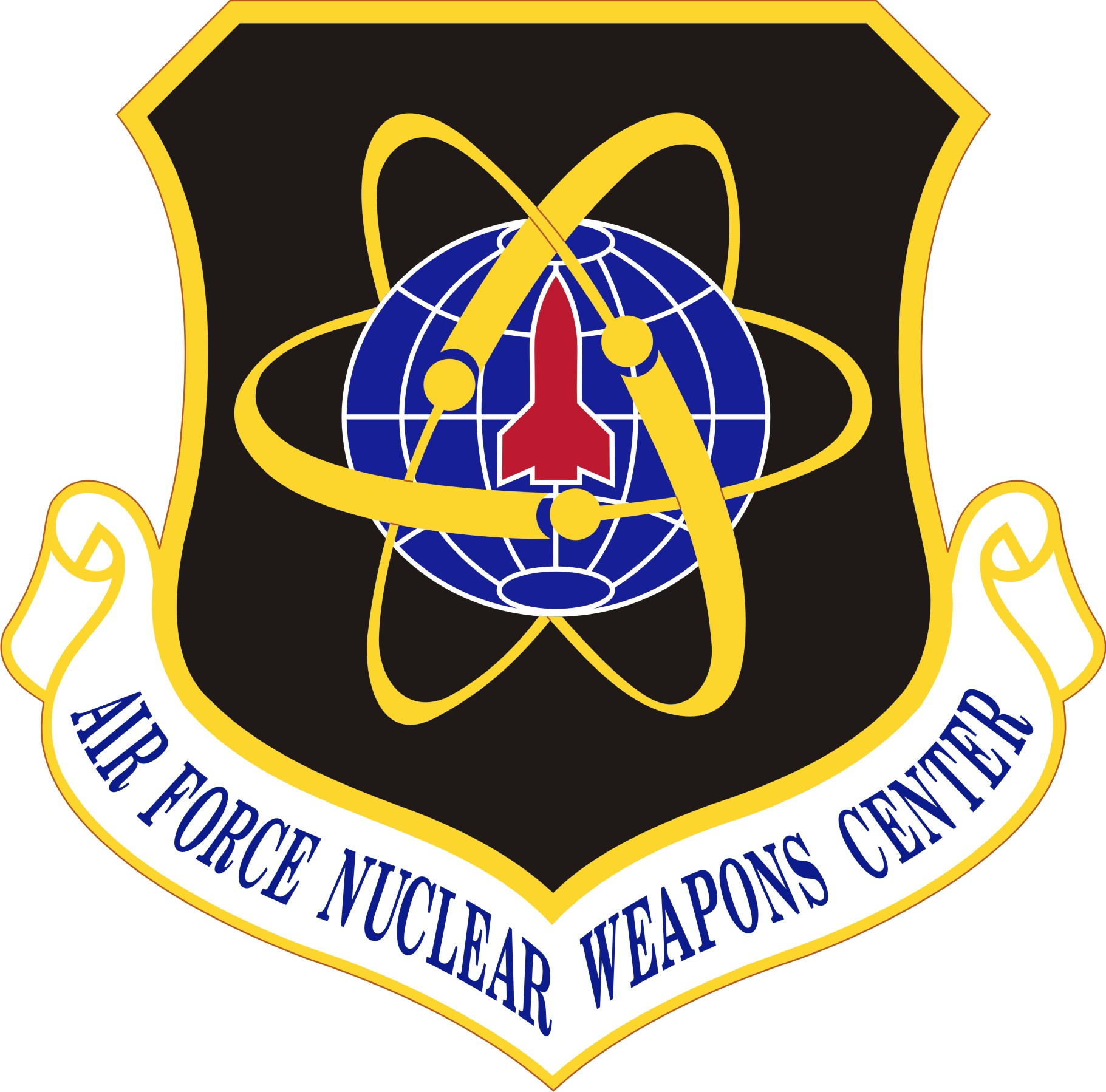 Emblem of the Air Force Nuclear Weapons Center of the Air Force Materiel Command of the United States Air Force located at Kirtland Air Force Base.